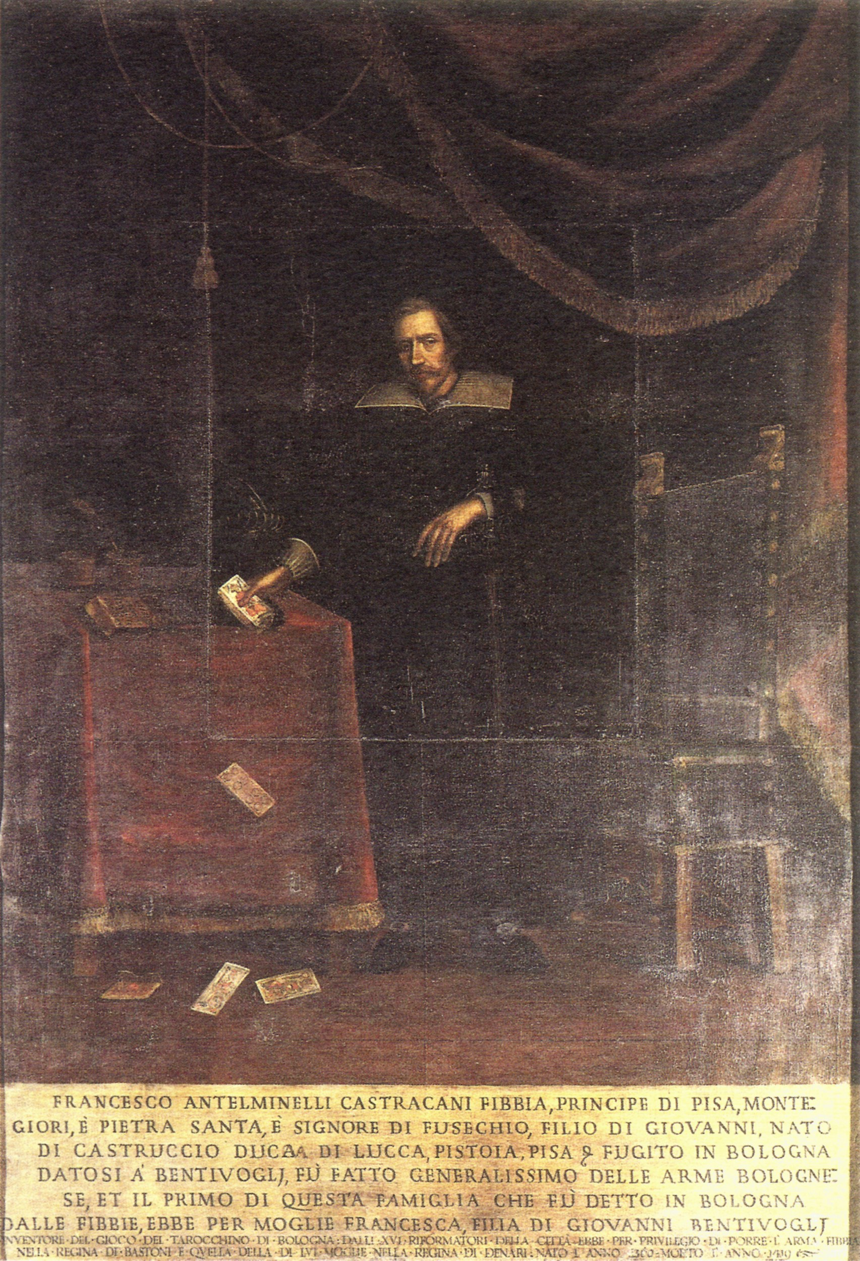 The painting depicts Prince Francesco Antelminelli Castracani Fibbia (1360-1419) with a deck of Tarot cards, tarocchino bolognese. The Queen of Batons can be seen, bearing the Fibbia arms. There is no historical evidence that Tarot had been invented until two decades after the Prince's death.